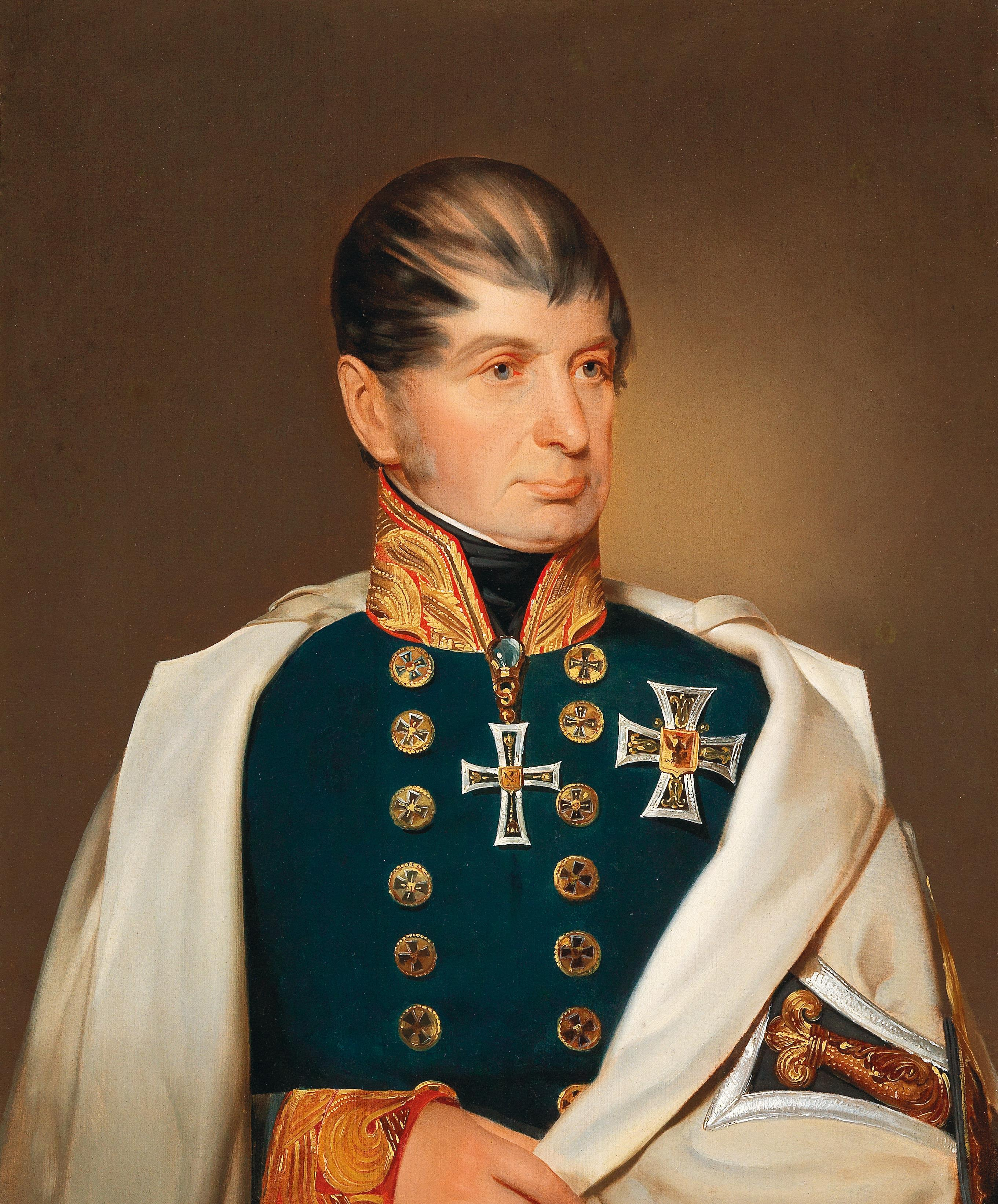 Portrait of Archduke Maximilian Joseph of Austria-Este (1782–1863), as Grand Master of the Teutonic Order, 77 x 62.2 cm, framed, (W)